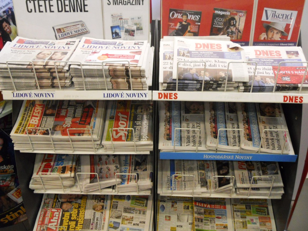 Newspapers in Prague